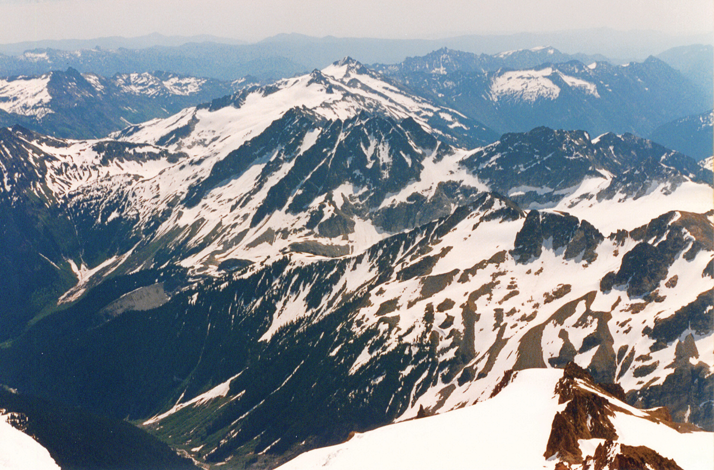 Tenpeak Mountain, Luahna, and Clark Mountain, seen from Glacier Peak in the North Cascades.